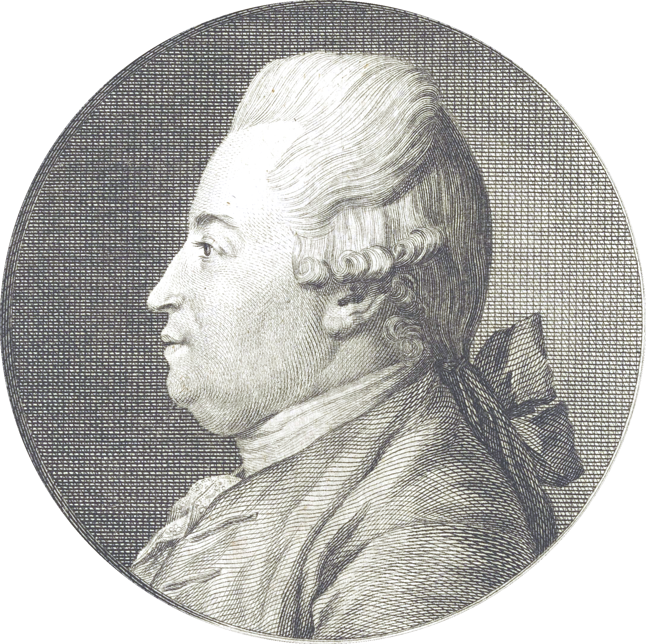 Otto Friedrich Müller (1730-1784)